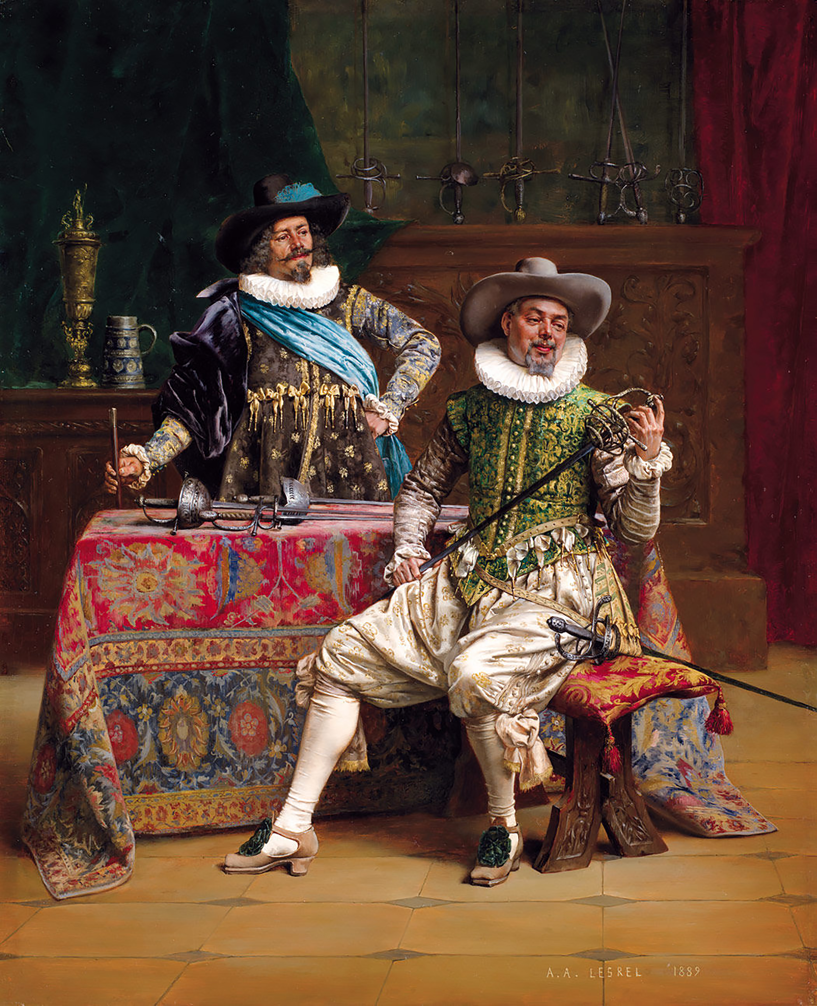 Adolphe Alexandre Lesrel - The King's Armourers